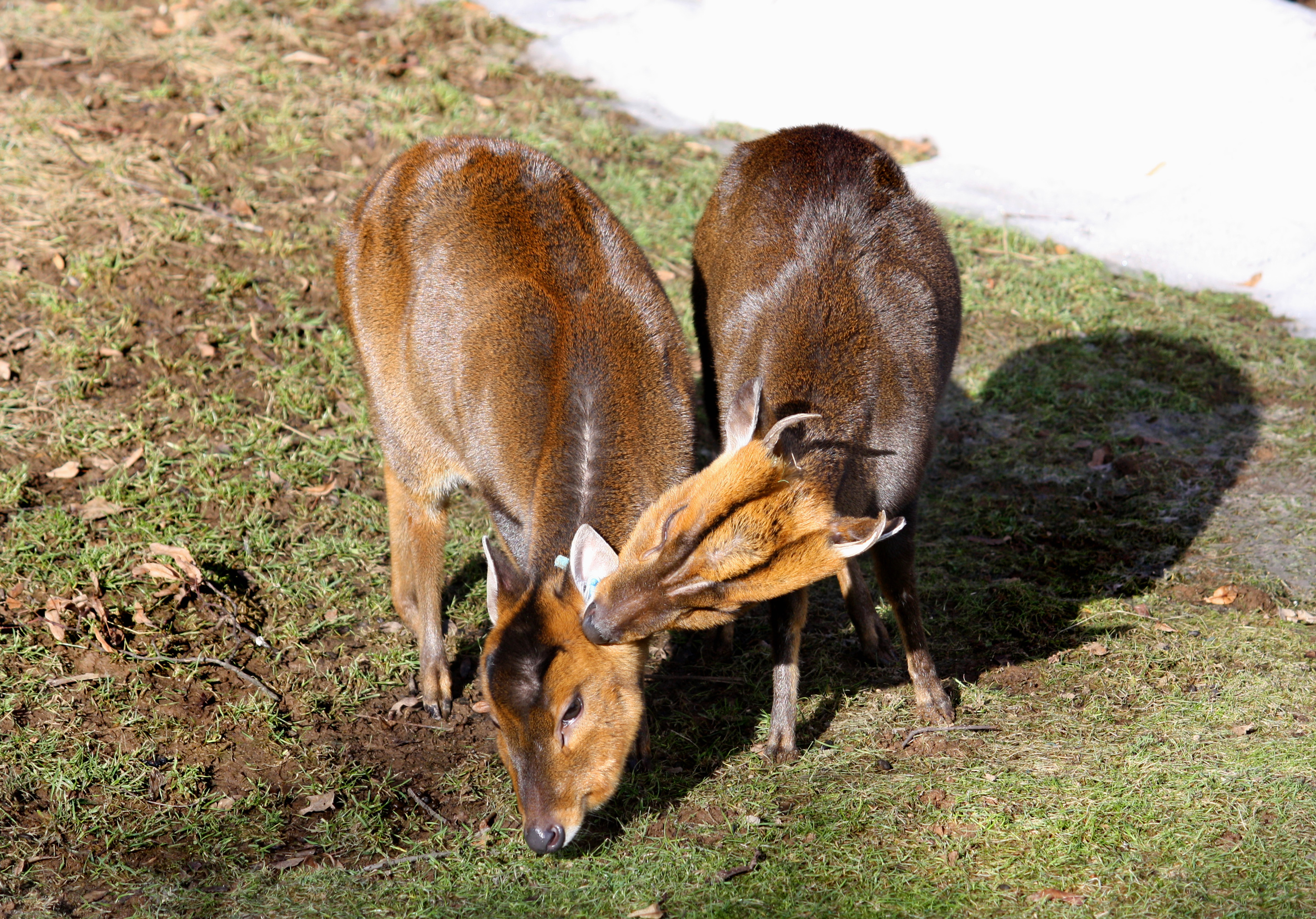 Reeves's Muntjac (Muntiacus reevesi) in Prague Zoo, Czech Republic